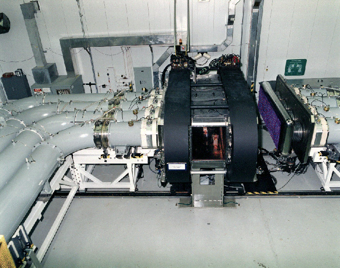 This is the final and largest amplifier in the Nike laser. It increases the laser beam energy from 150 Joules to over 5000 Joules. The laser beam enters the gas-filled laser cell through the copper colored 60 cm x 60 cm window, passes through the cell, exits a second window, is reflected by a mirror, and then passes through the cell in the opposite direction. (The mirror is not visible in the photo.) Thus the beam is amplified in each direction. The laser gas is a krypton/fluorine/argon mixture and is excited by two opposing 670,000 volt electron beams. The four transmission lines that drive each electron beam can be seen on either side of the cell. The electron beams are guided by the two large black electromagnets. In this photo, the right hand side of the system has been rolled back to display the electron beam emitter and the high voltage vacuum insulators.""